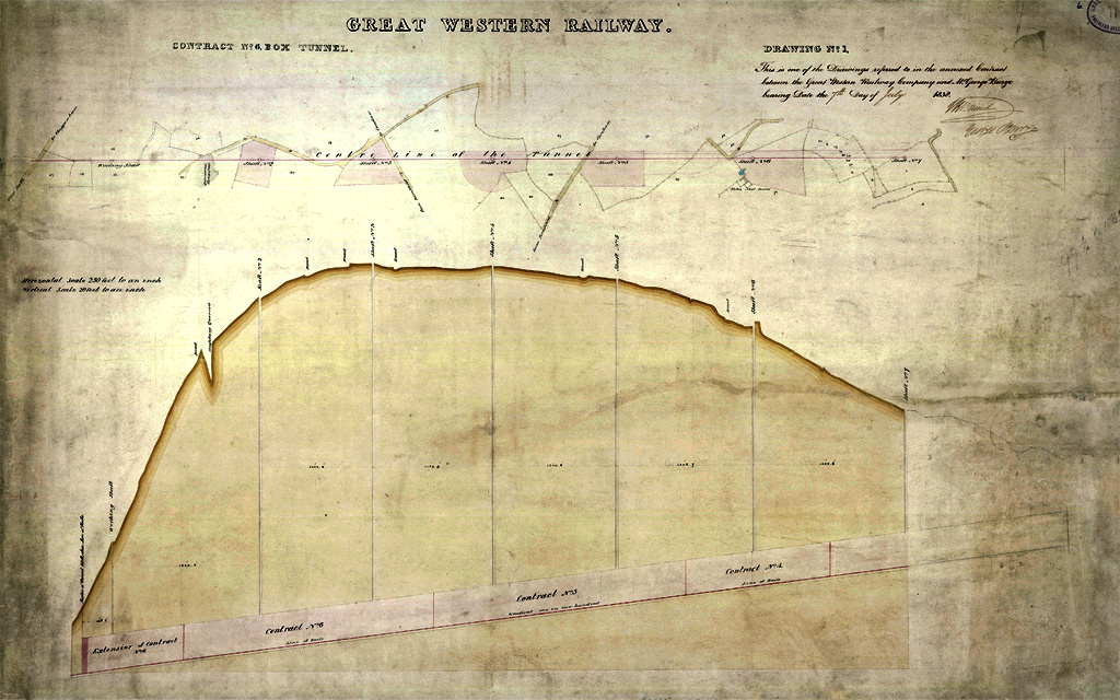 Contrast-enhanced scan of original engineering drawing of the longitudinal cross-section of Box Tunnel, dated 7 July 1838.